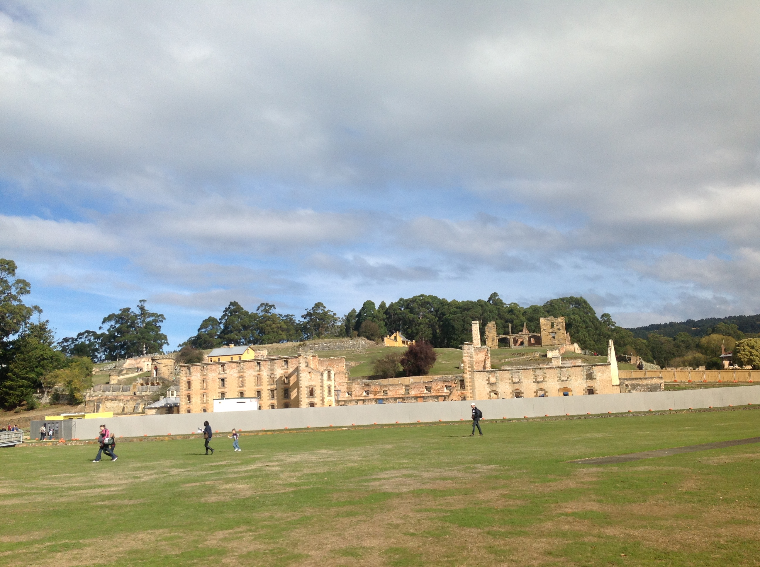 Port Arthur Penitentiary in ruins as of 2014